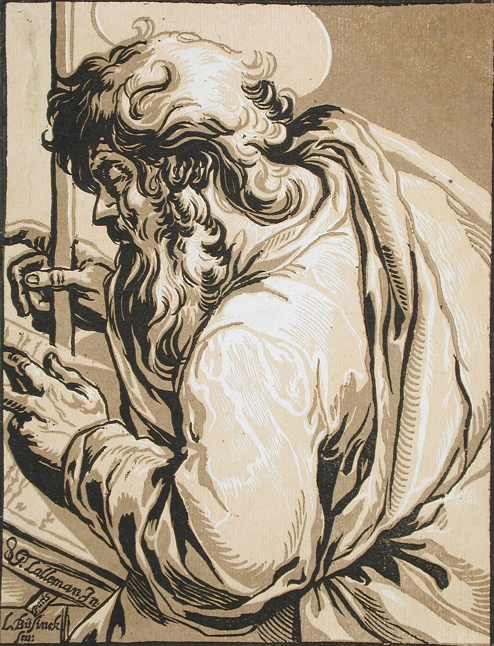 Germany, 1620-30 Series: Christ and the Twelve Apostles, pl. 11 Prints; woodcuts Chioroscuro woodcut Los Angeles County Fund (57.26.2) Prints and Drawings